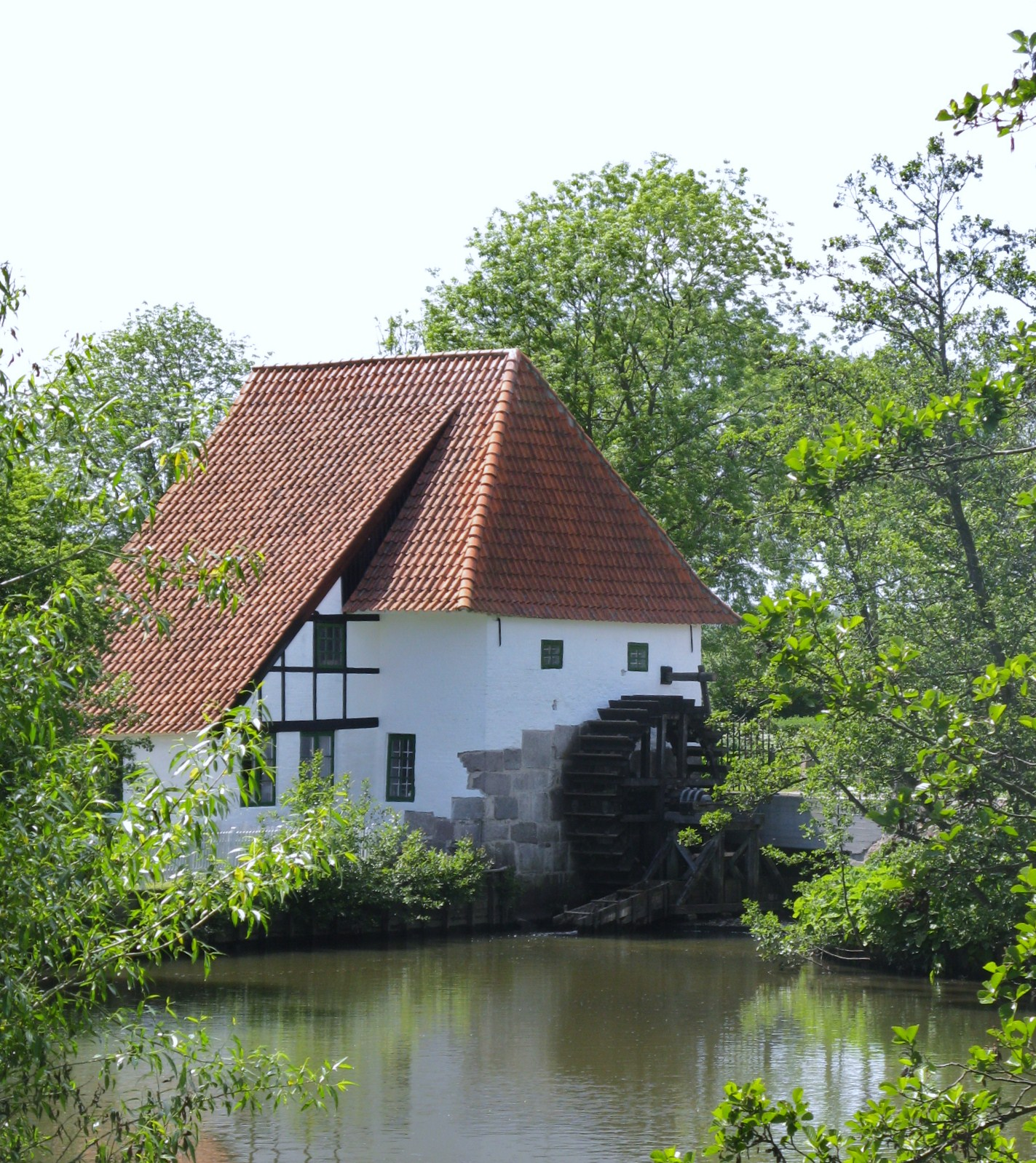 Castle mill (16th century), Aabenraa/Denmark